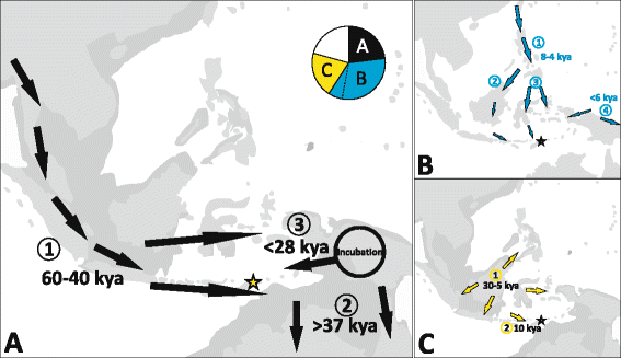 Migration routes and their contribution to the East Timor mtDNA pool. The major postulated migration events into ISEA (Island Southeast Asia) and our novel findings are depicted. The asterisk highlights East Timor. The darker grey areas indicate the predicted late Pleistocene coastline. (A) The initial human settlement carrying haplogroups P, Q, N21 and others that arrived (1) between 60–40 kya. Our results indicate (2) a colonization of Australia (southern Sahul) before 37 kya and (3) an incubation period in northern Sahul (NG) followed by westward expansions after 28 kya; (B) The Holocene (1) southward out of Taiwan movement marked by haplogroups M7c1, D5, F1a3, F1a4 between 8–4 kya followed a (2) western or (3) eastern route (that we favour for East Timor), and (4) a local arisal, possibly connected to (1), of the “Polynesian motif” ~6 kya followed by west- and eastward migrations; (C) the postglacial expansion of haplogroup E (and others) (1) originating in eastern Sunda and a dispersal 30–5 kya that (2) reached eastern Indonesia ~10 kya. The inlay pie chart in (A) depicts the proportions of haplogroups associated with (A), (B) and (C) within the extant East Timor population. The dashed line separates the proportion of the “Polynesian motif”, as it has also been described to derive from a separate event. See text in the paper for details.